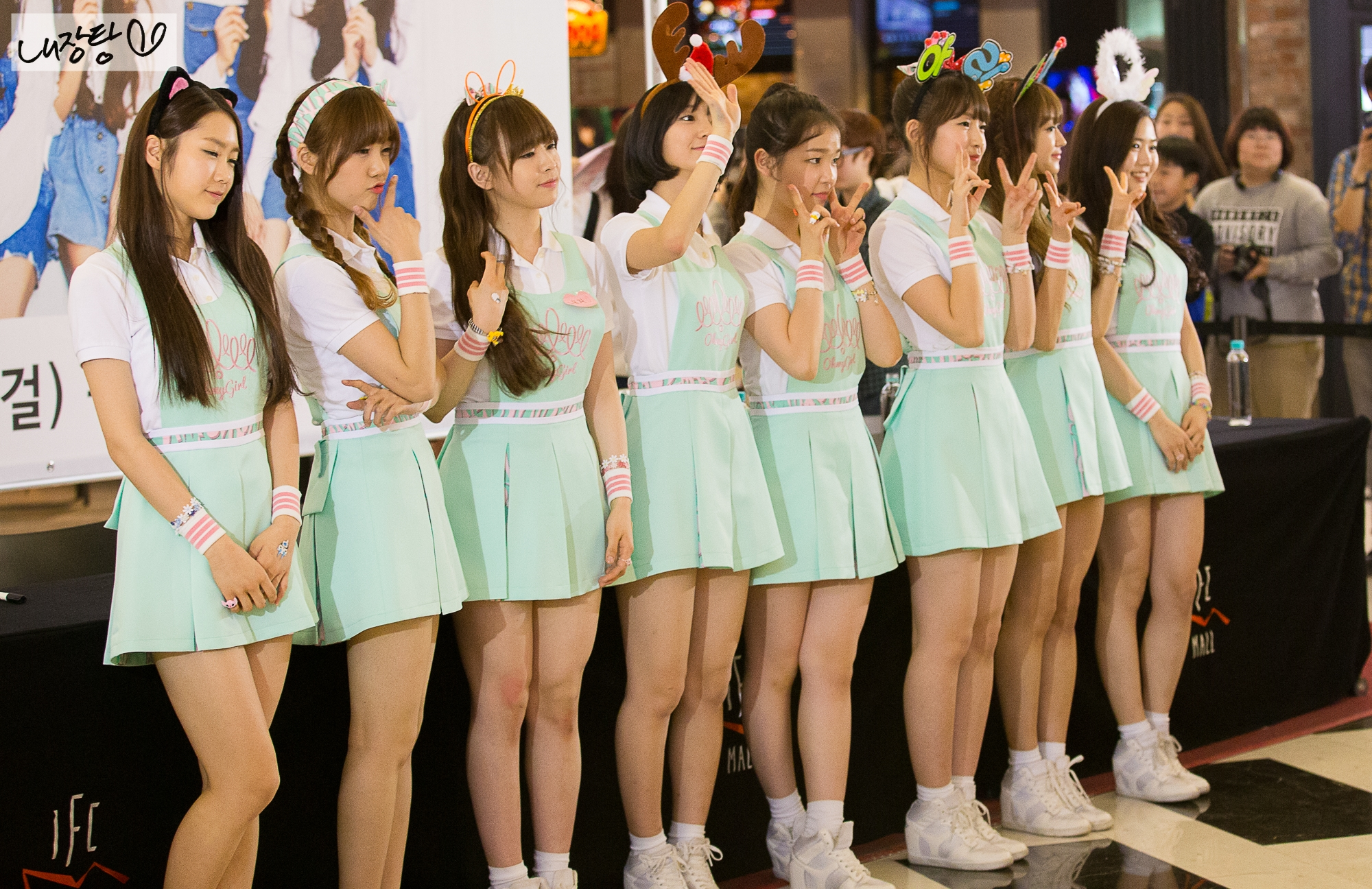 Oh My Girl at a fansign at IFC Mall in Yeouido